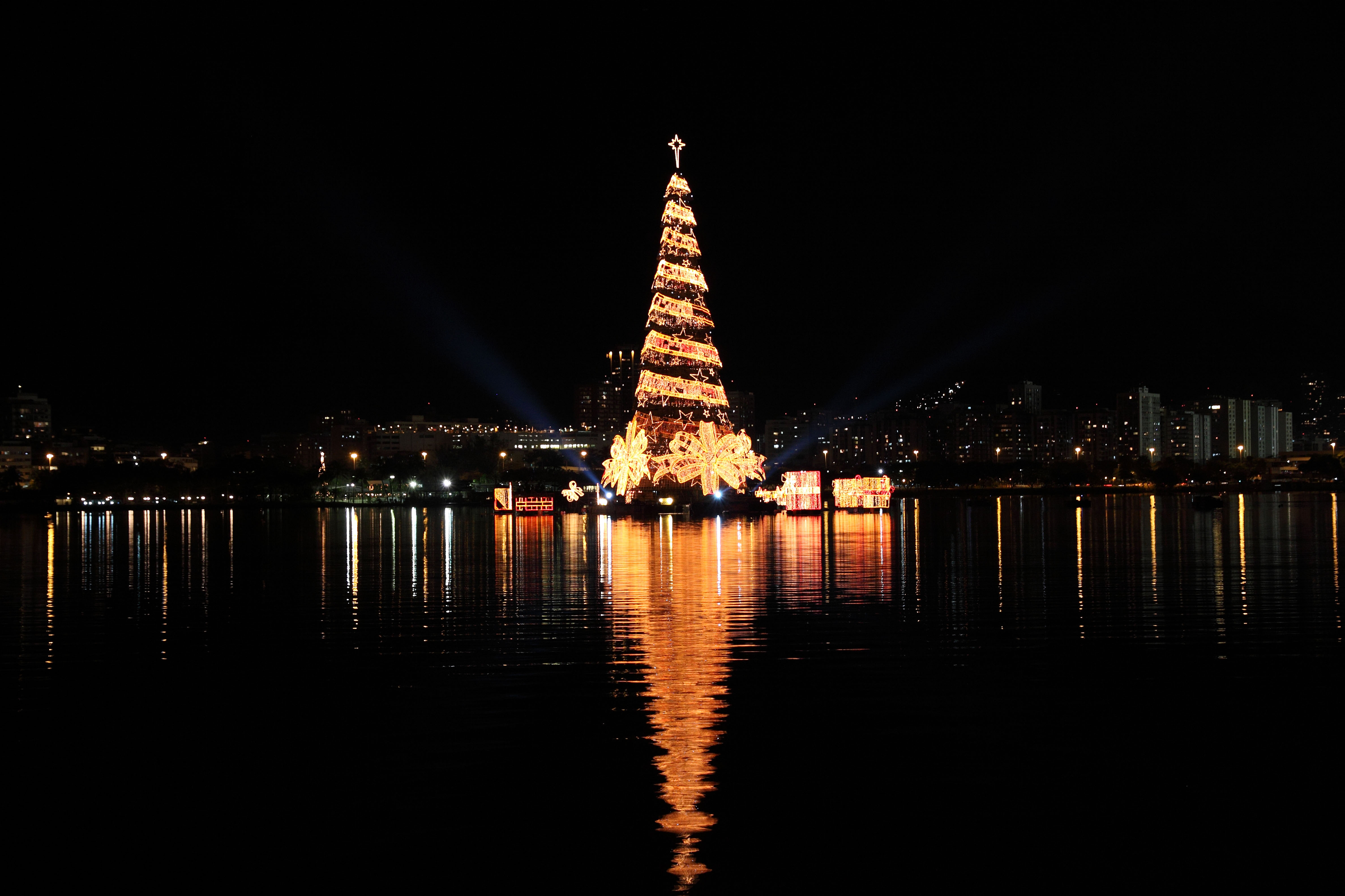 Rodrigo de Freitas Lagoon's Christmas Tree, in December 2011.